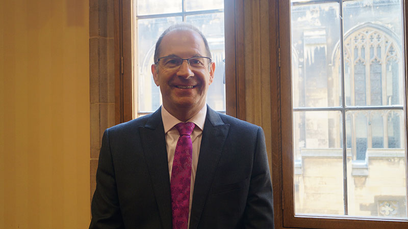 Lord Scriven